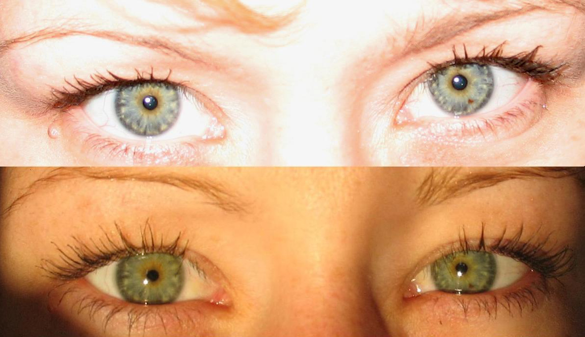 An example of Blue-Green eyes. These are the same eyes, however the color appears to be quite different depending on the surroundings. In the top picture, the eyes appear more blue or grey, but in the bottom picture, the same eyes appear more green. Notice the yellow- or copper- rings around the pupils.